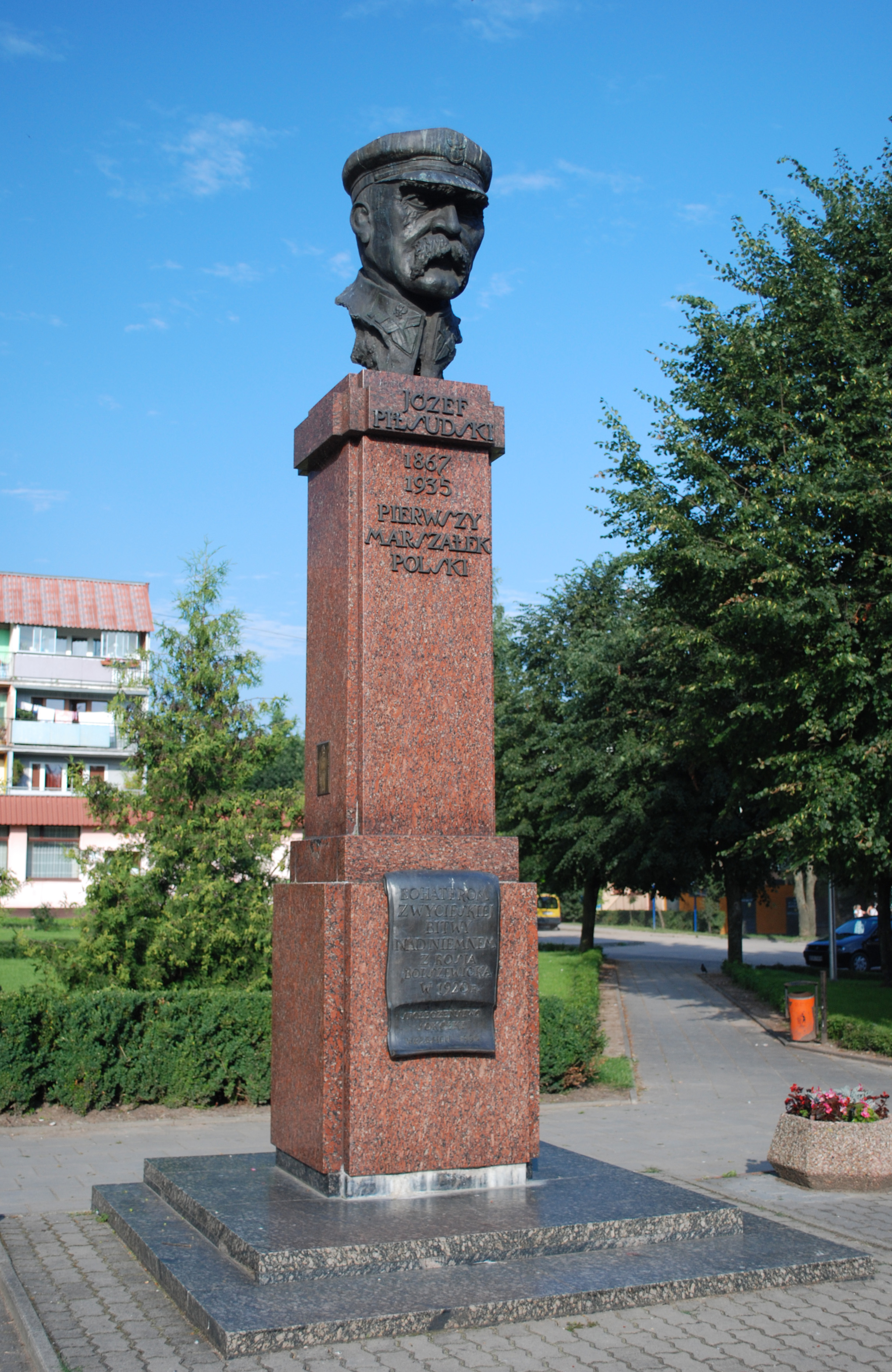 This photo from Podlaskie Voievodeship was taken during Polish Wikiexpedition 2009 set up by Wikimedia Polska Association. The making of this document was supported by Wikimedia Polska.